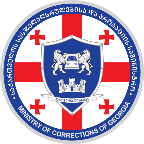 Ministry of Corrections of Georgia